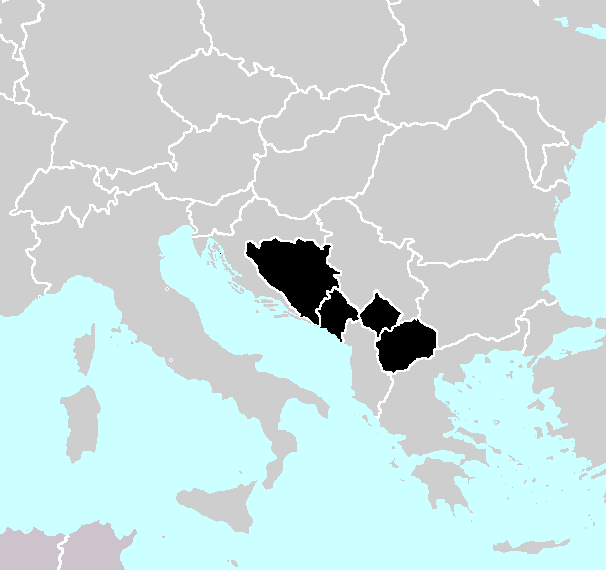 the countries members of the Adriatic Charter (as of 2009)